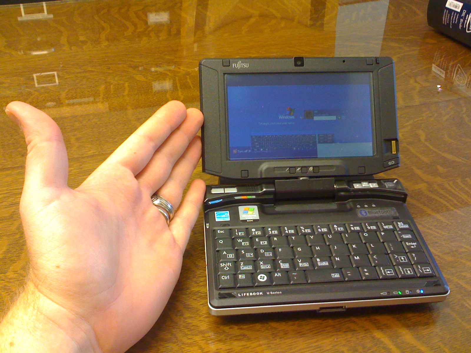 Fujitsu Lifebook 810U - very small and light (580g) convertible tablet pc